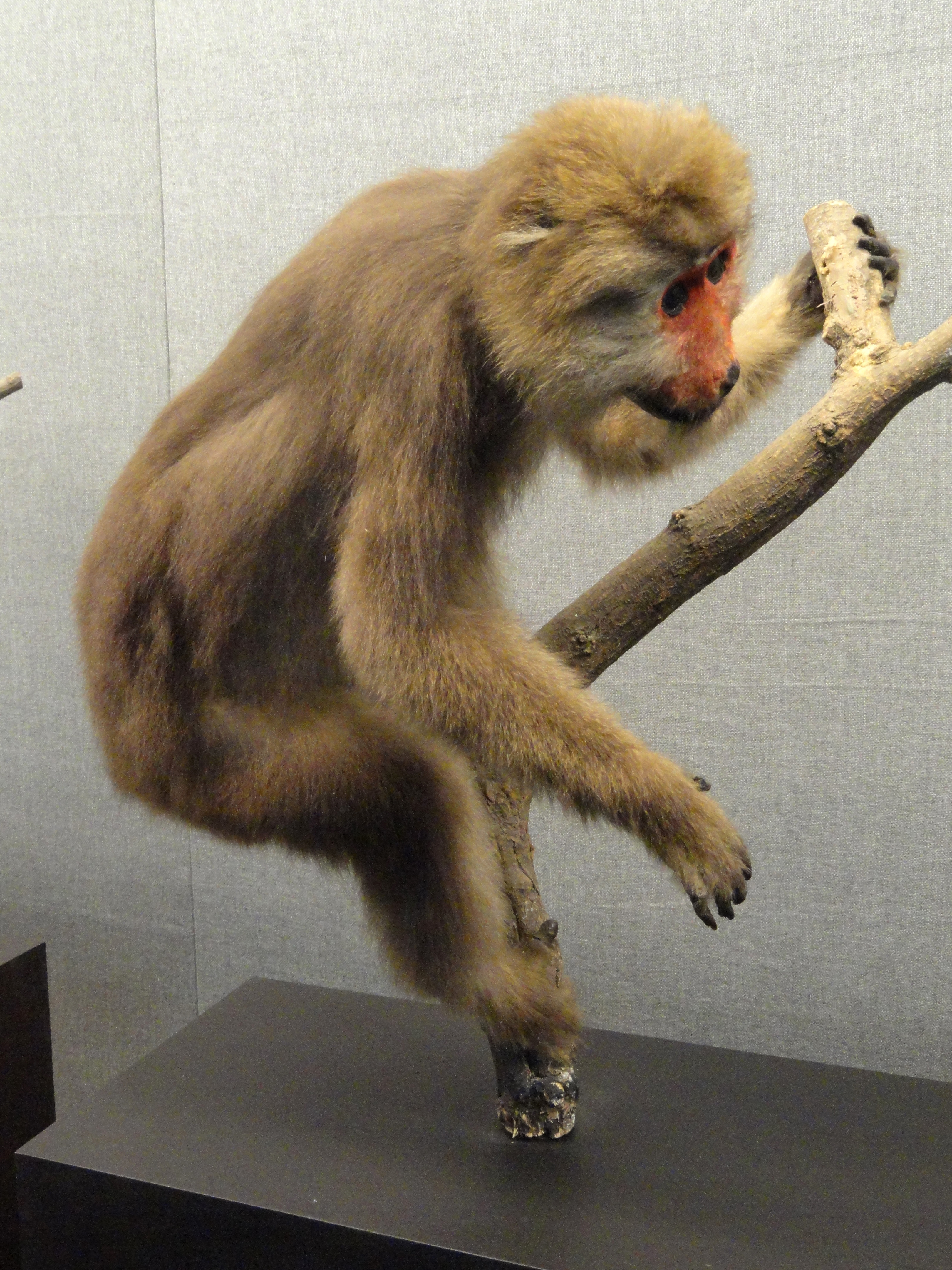 Taxidermy exhibit in the Kunming Natural History Museum of Zoology (昆明动物博物馆), Kunming, Yunnan, China.